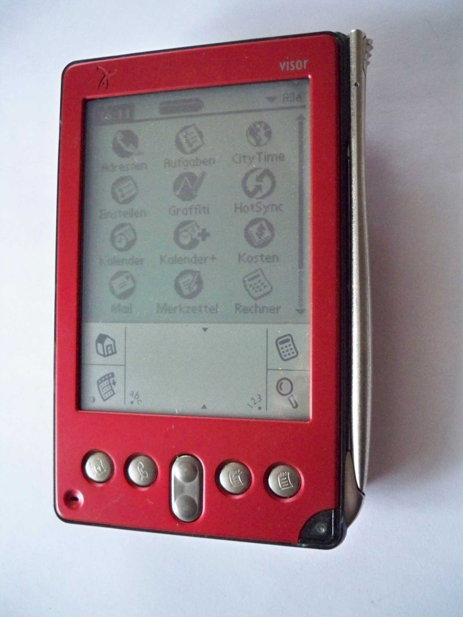 Personal Digital Assistant Handspring Visor Edge, red